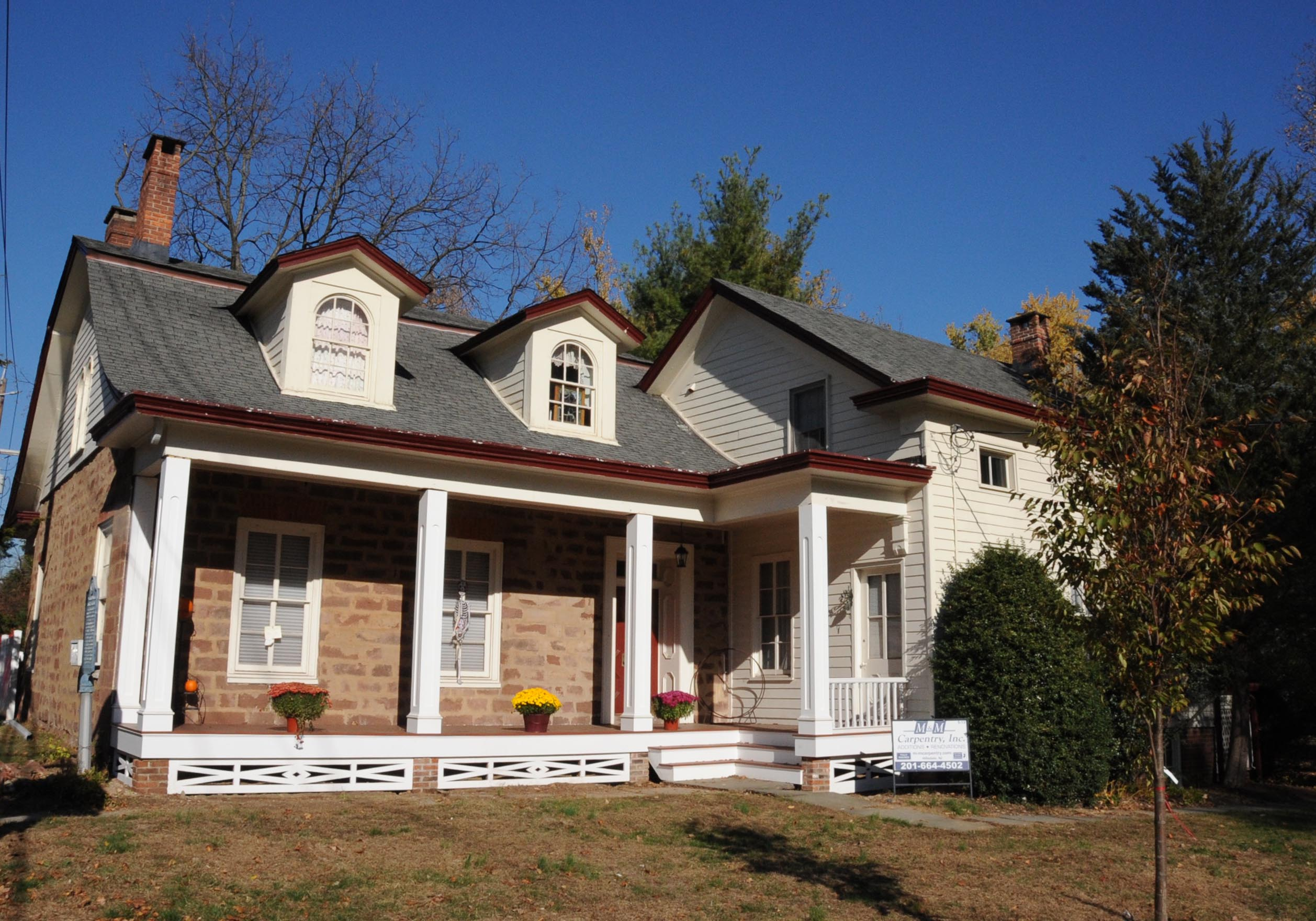 AKA WORTENDYKE HOMESTEAD BUILT BETWEEN 1812 AND 1825; THE FAMILY OPERATED A STORE ON PASCACK ROAD AND HIS SON WAS POSTMASTER